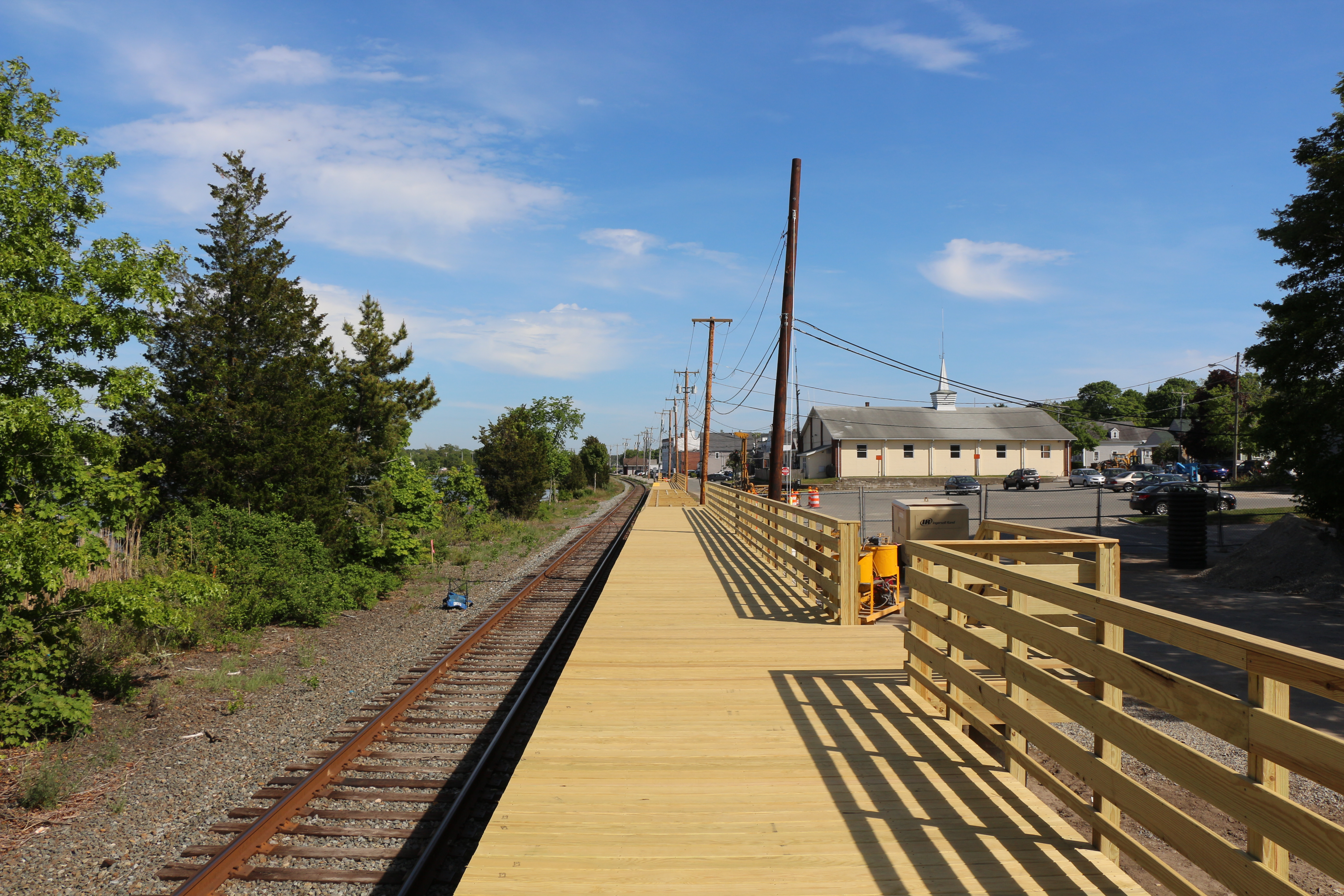 Looking outbound at the partially complete Wareham station platform in June 2014